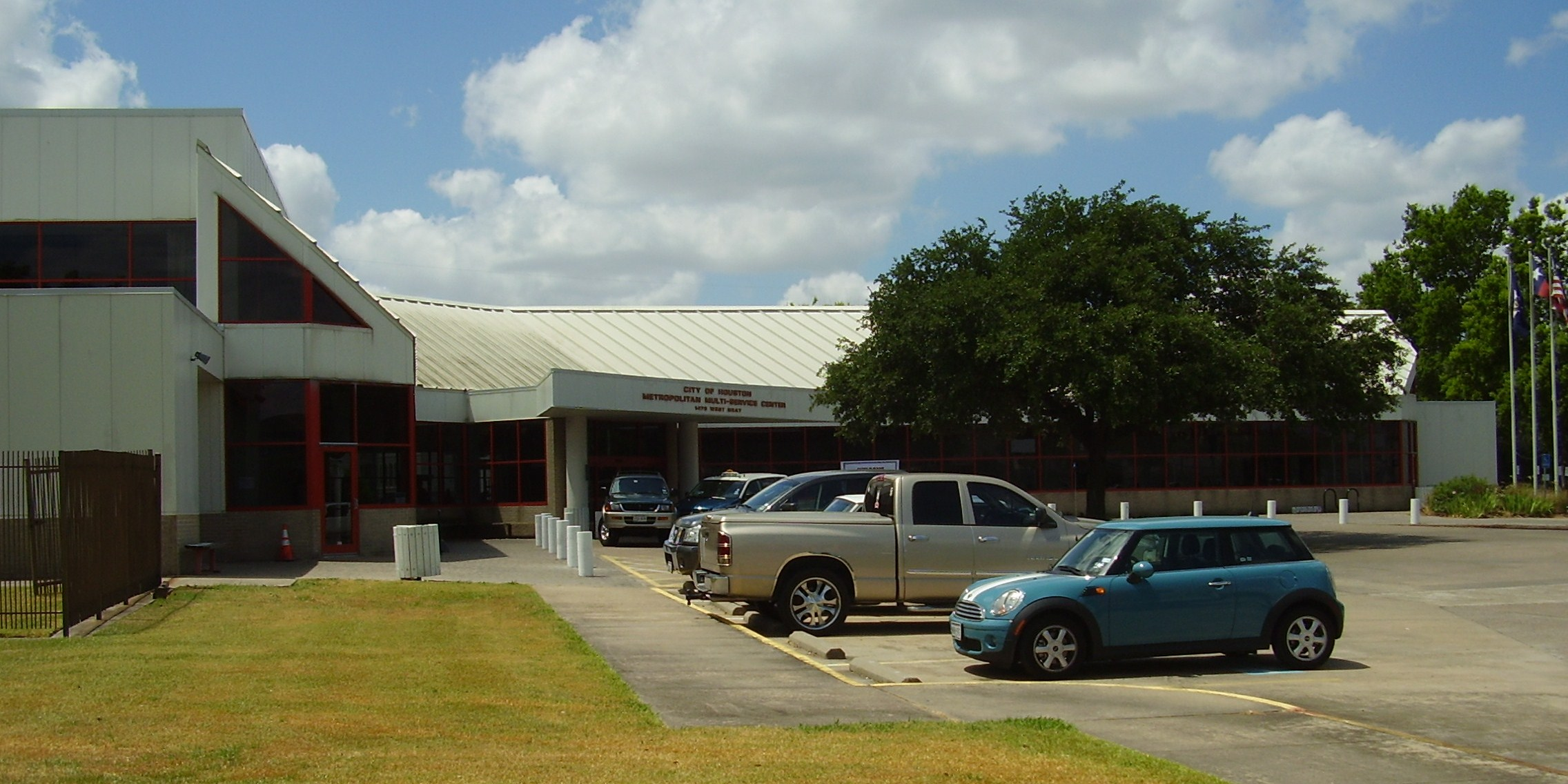 West Gray Adaptive Recreation Center, previously the Houston Metropolitan Multi-Service Center, at 1475 West Gray